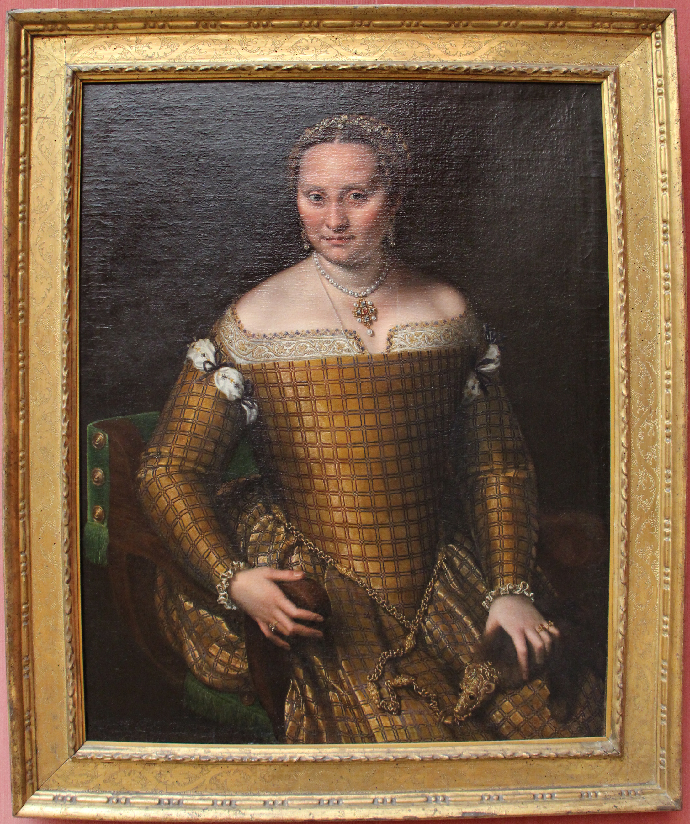 Italian Renaissance paintings in the Gemäldegalerie, Berlin